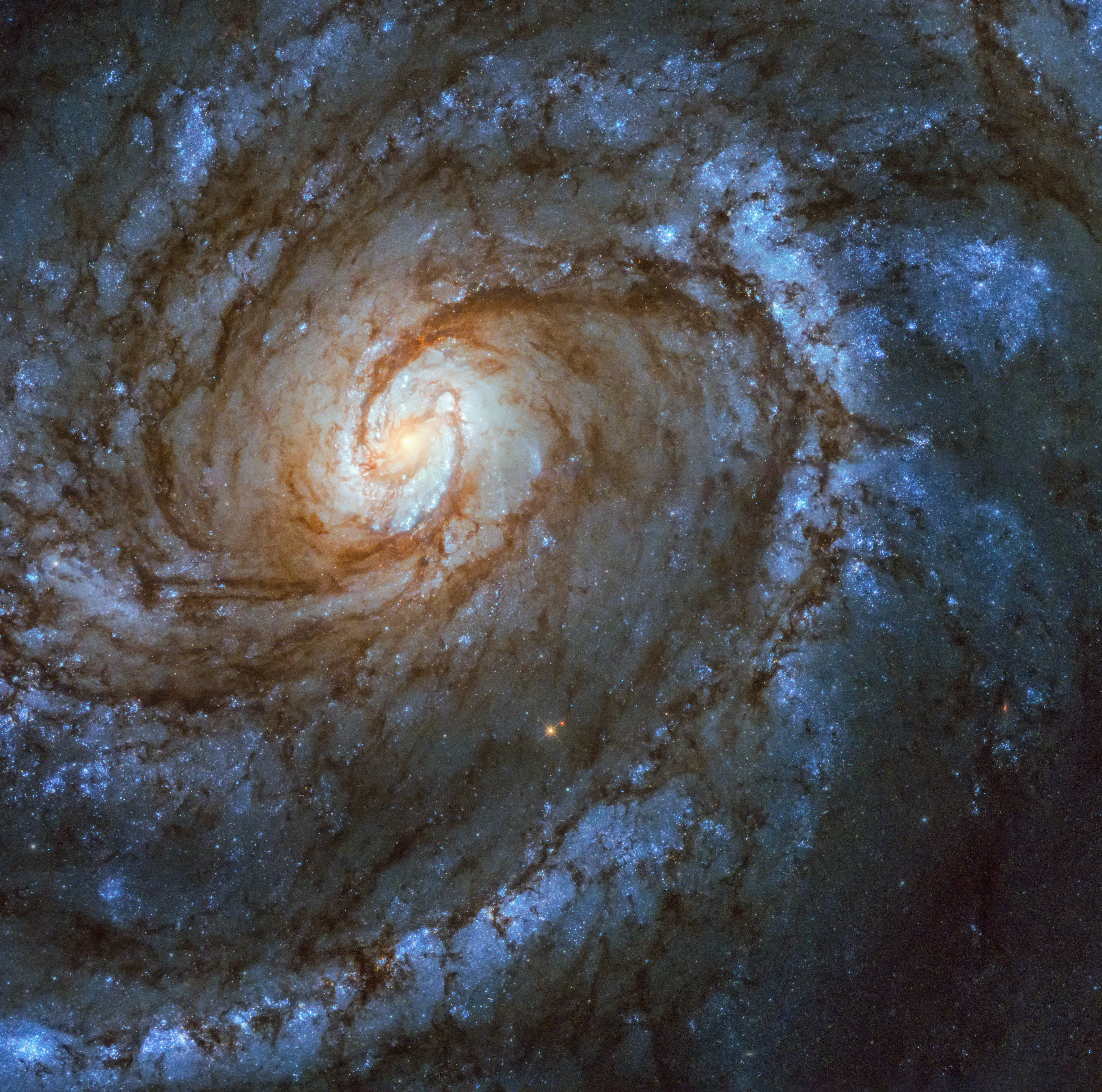 This stunning spiral galaxy is Messier 100 in the constellation Coma Berenices, captured here by the NASA/ESA Hubble Space Telescope — not for the first time. Among Hubble’s most striking images of Messier 100 are a pair taken just over a month apart, before and after Servicing Mission 1, which took place 25 years ago in December 1993. After Hubble was launched, the astronomers and engineers operating the telescope found that the images it returned were fuzzy, as if it were out of focus. In fact, that was exactly what was happening. Hubble’s primary mirror functions like a satellite dish; its curved surface reflects all the light falling on it to a single focal point. However, the mirror suffered from a defect known as a spherical aberration, meaning that the light striking the edges of the mirror was not travelling to the same point as the light from the centre. The result was blurry, unfocused images. To correct this fault, a team of seven astronauts undertook the first Servicing Mission in December 1993. They installed a device named COSTAR (Corrective Optics Space Telescope Axial Replacement) on Hubble, which took account of this flaw of the mirror and allowed the scientific instruments to correct the images they received. The difference between the photos taken of Messier 100 before and after shows the remarkable effect this had, and the dramatic increase in image quality. COSTAR was in place on Hubble until Servicing Mission 4, by which time all the original instruments had been replaced. All subsequent instrumentation had corrective optics built in. This new image of Messier 100 taken with Hubble’s Wide Field Camera 3 (WFC3), demonstrates how much better the latest generation of instruments is compared to the ones installed in Hubble after its launch and after Servicing Mission 1.